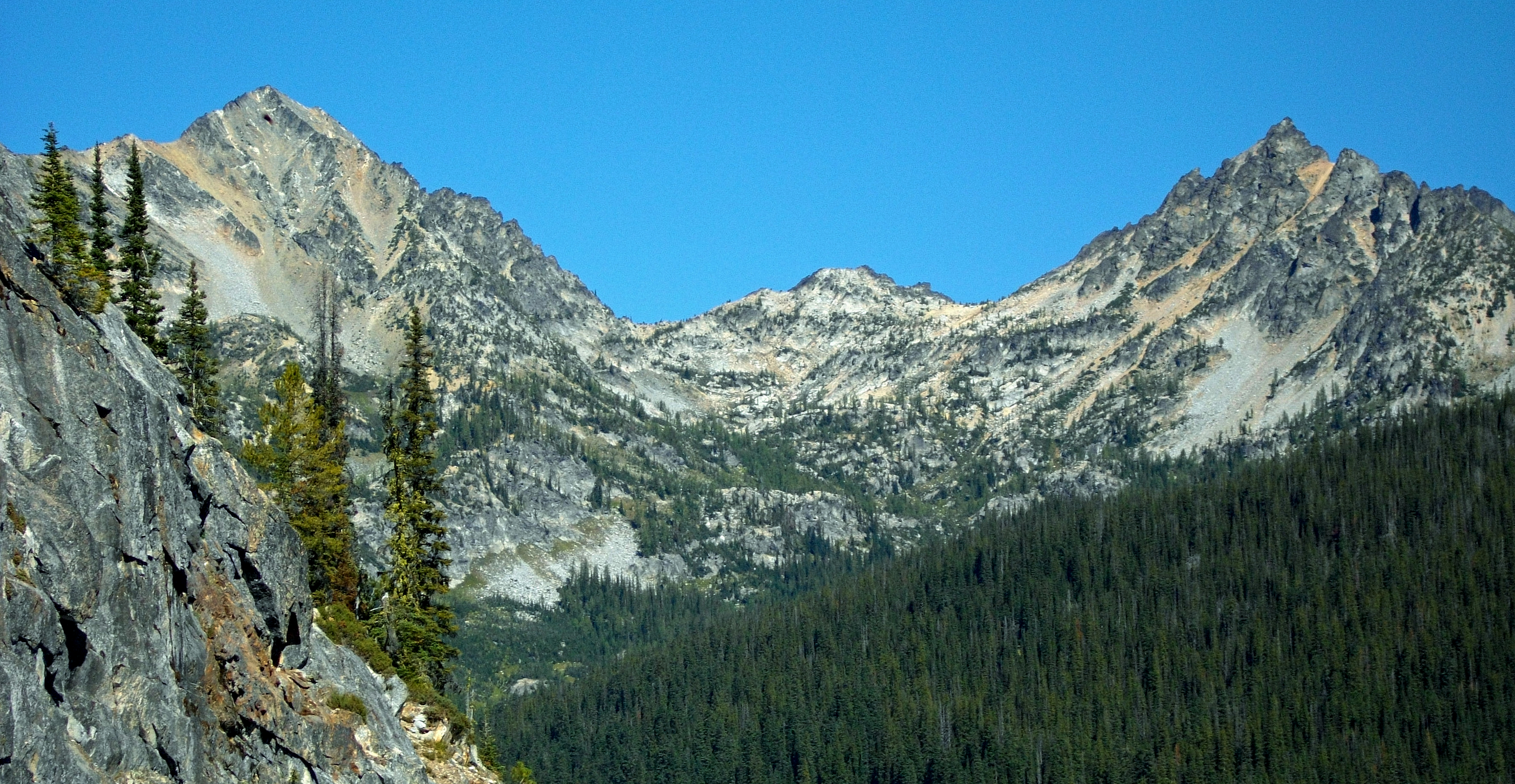 Saska Peak (left) and Emerald Peak, from the south in North Fork Entiat River valley.